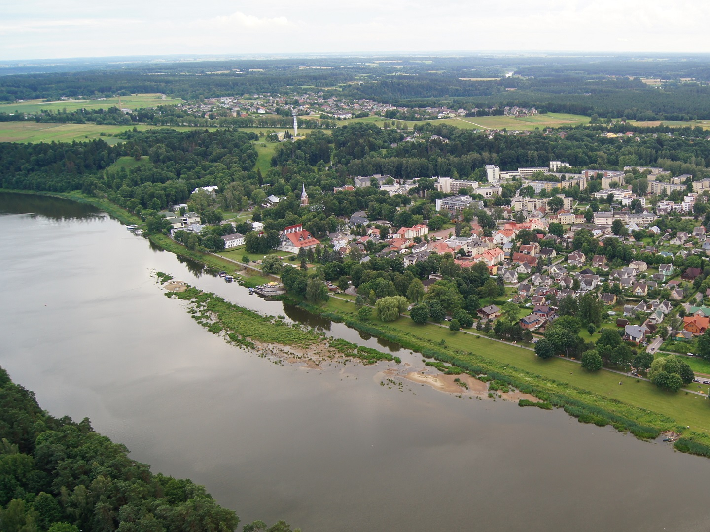 Birštonas, center of the town with river Nemunas, aerial view (taken by hot air balloon D-OMIK, the big white cat)